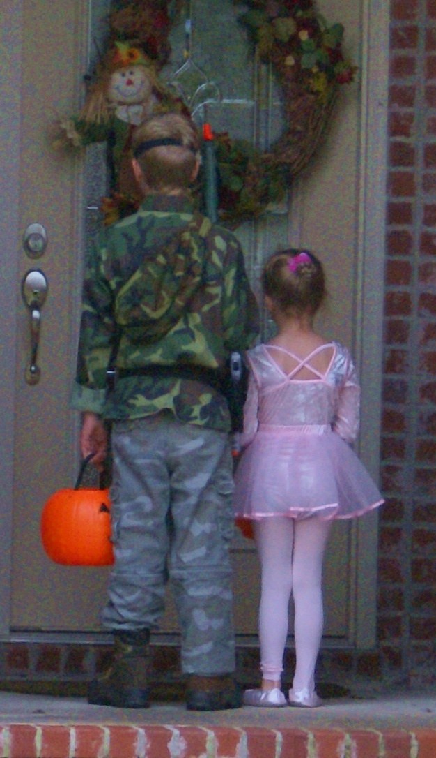 Two cousins, the boy dressed in military camouflage and the girl in a ballerina outfit, wait outside a door as they go trick-or-treating, October 31, 2007.